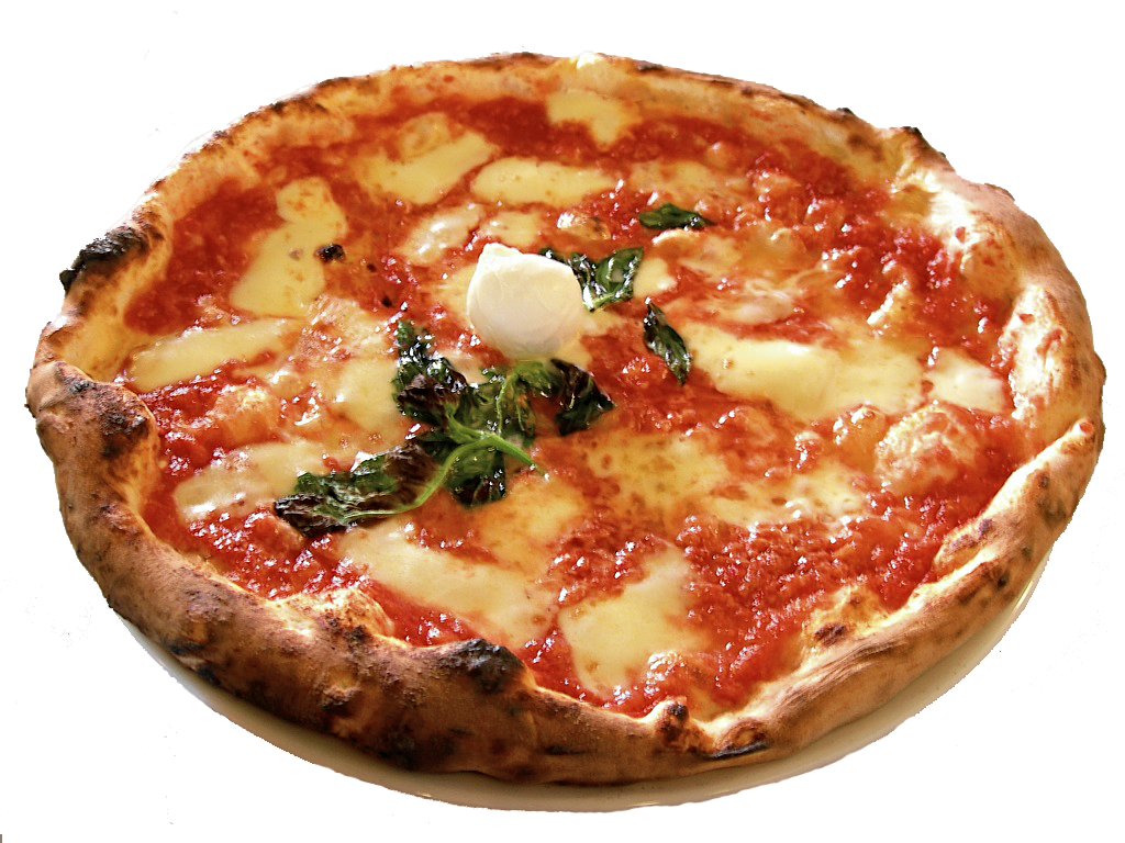 Picture of an authentic Neapolitan Pizza Margherita taken by Valerio Capello on September 6th 2005 in a pizzeria ("I Decumani") located on the Via dei Tribunali in Naples.